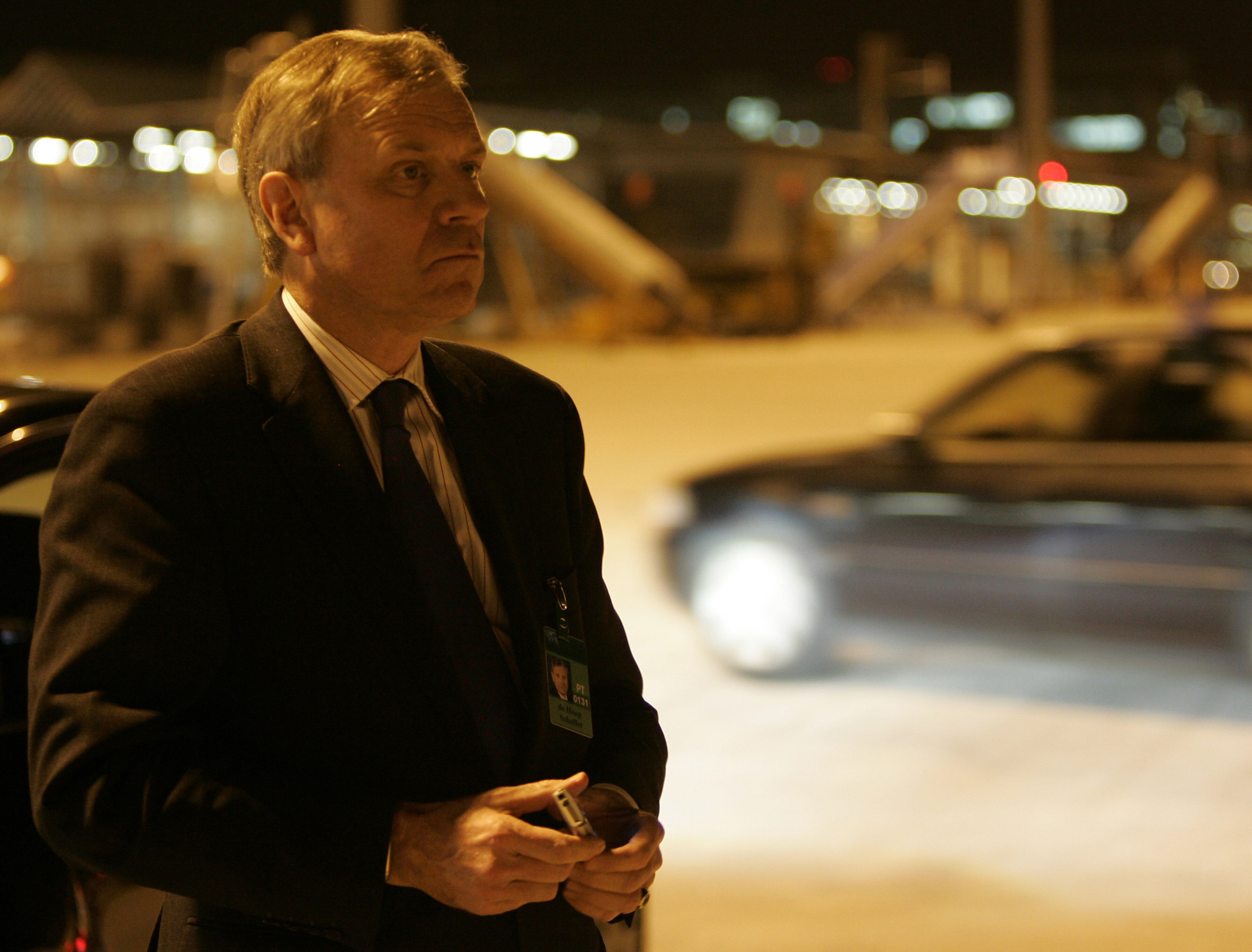 43rd Munich Security Conference 2007: Jaap de Hoop Scheffer, Secretary General NATO, at airport munich.